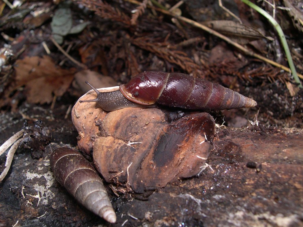 Megalophaedusa martensi (Martens, 1860) (Pulmonata: Stylommatophora: Clausiliidae: Phaedusinae) . The largest species of the family Clausiliidae (Door Snails) in the world. The shells range from 35mm to 55mm in the length. The upper snail in the photo weighs 3.65g and its shell measures 51mm long and 11.9mm wide. Loc: Hamamatsu, Shizuoka Prefecture, Japan. ja: オオギセル （キセルガイ科：アジアギセル亜科）はキセルガイ科の世界最大種。画像内の上の貝は体重3.65グラム、貝殻は長さ51ミリ、幅11.9ミリ。 場所：浜松市